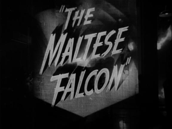 Alternate main title frame from the 1941 public domain trailer for the Warner Bros. film The Maltese Falcon.